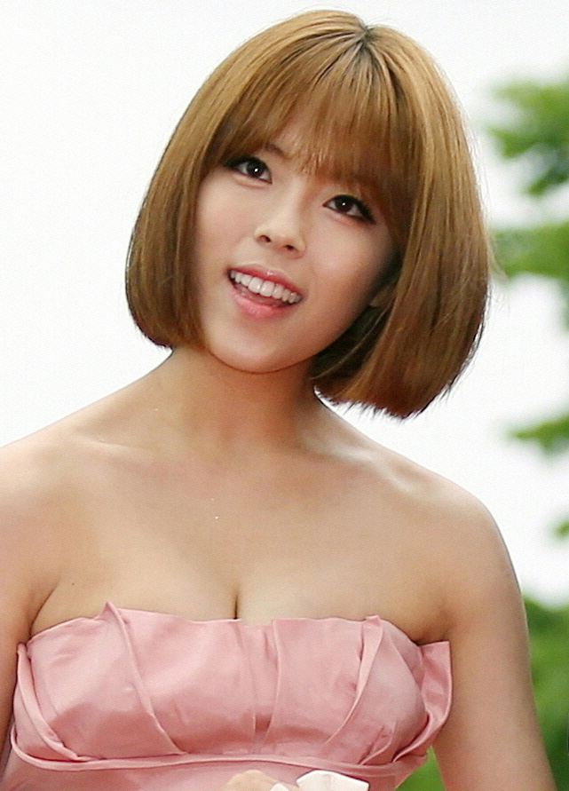 Dohee at 18th Puchon International Fantastic Film Festival, on July 17, 2014